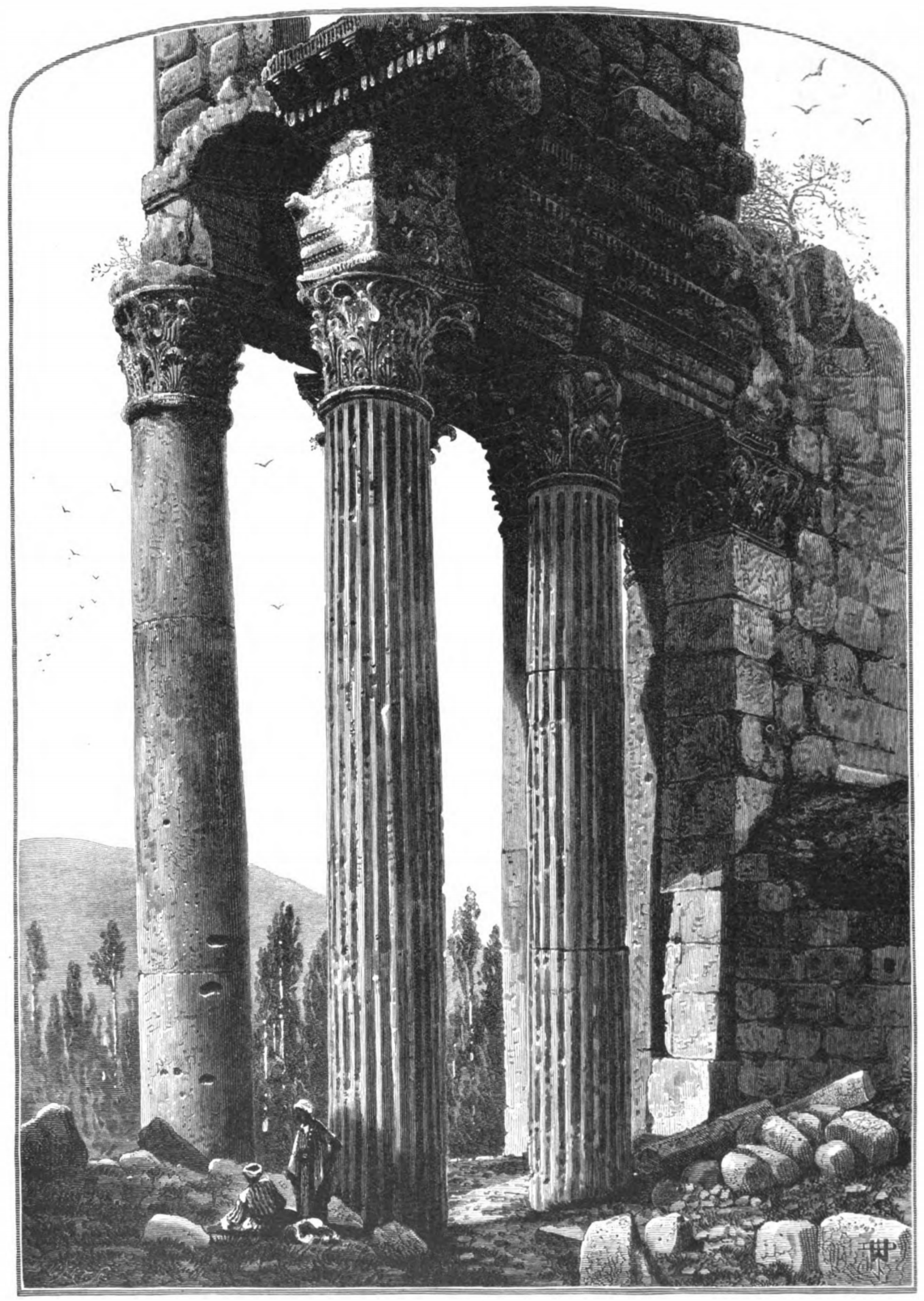 Caption: the south-east corner of the temple of the sun, ba'albek.At the east end of this temple there was a vestibule with a row of fluted columns within the outer line of plain columns; only two of these arenow standing. An 1881 engraving of the Temple of Bacchus at Baalbek (misidentified as the "Temple of the Sun").